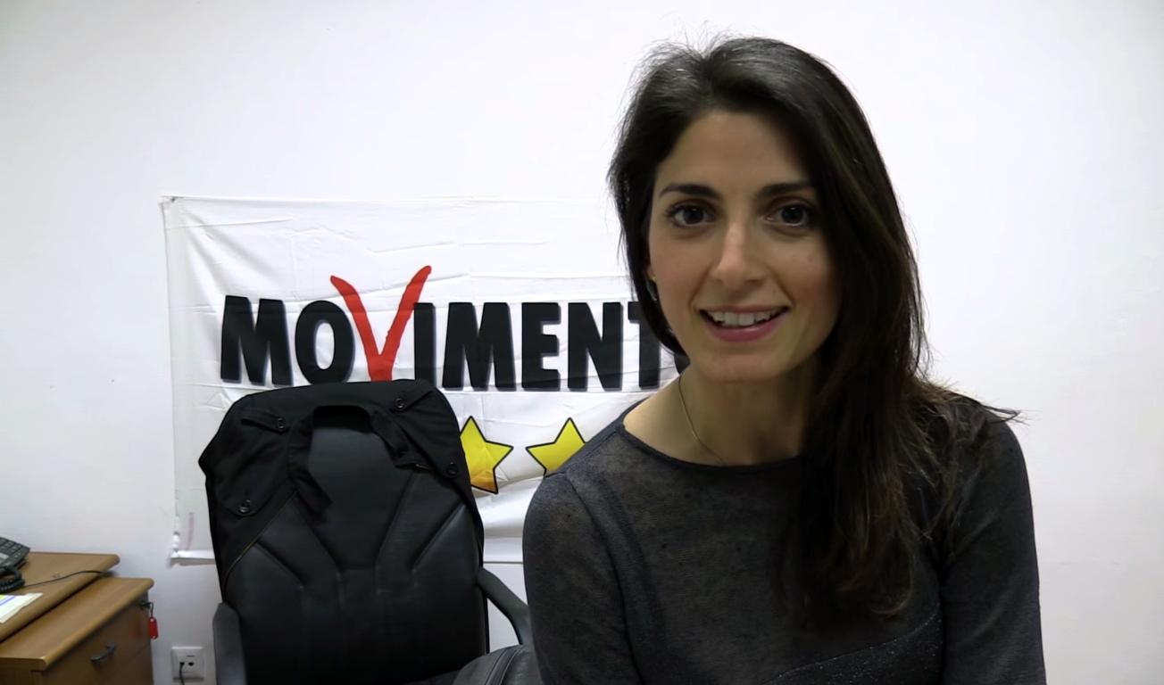 Virginia Raggi with 5 Star Movement logo, after the first round of Rome local elections in June 2016